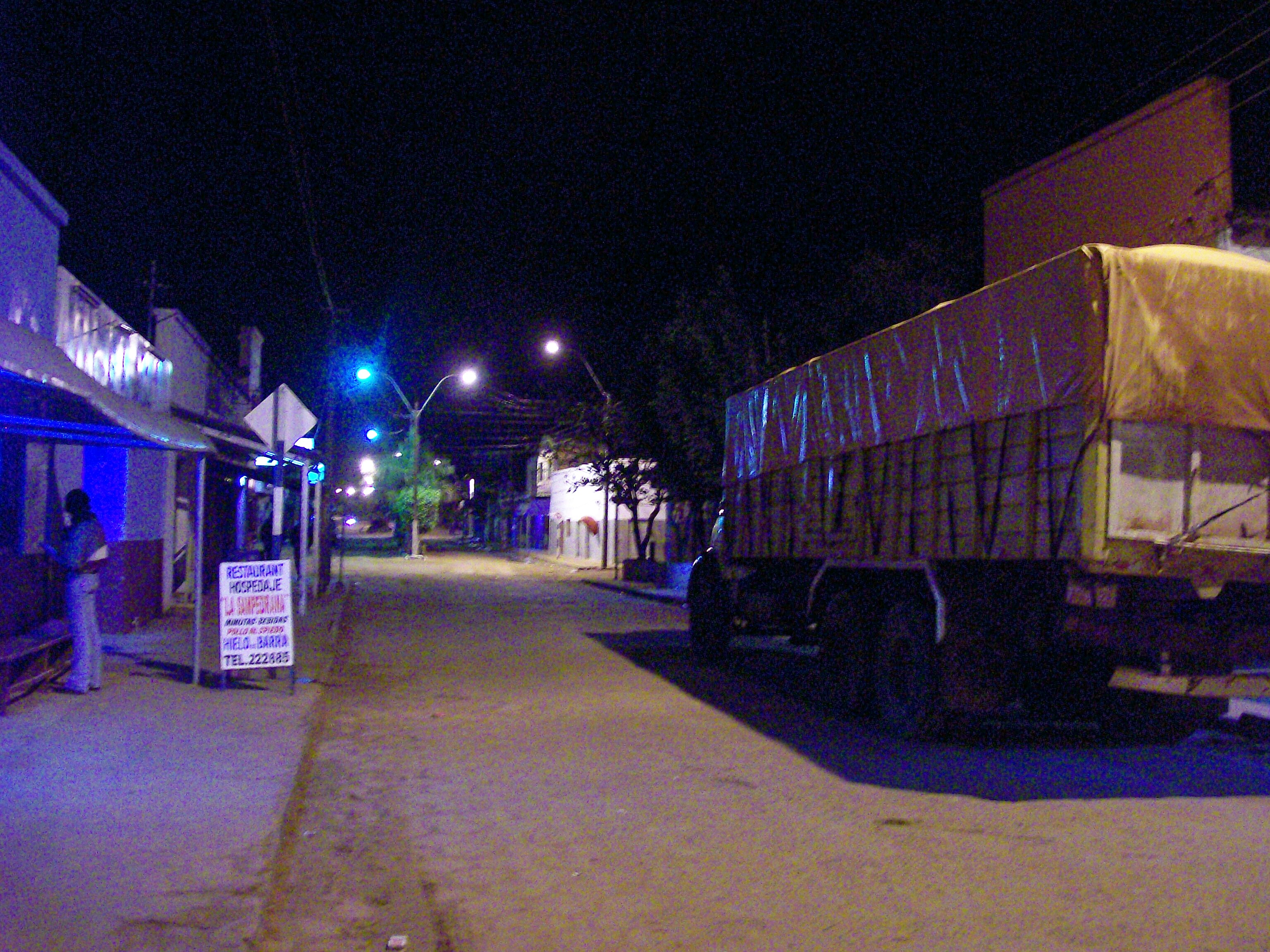 Main road in San Pedro de Ycuamandiyú (the capital of the Paraguayan province of San Pedro) at night, July 2007.